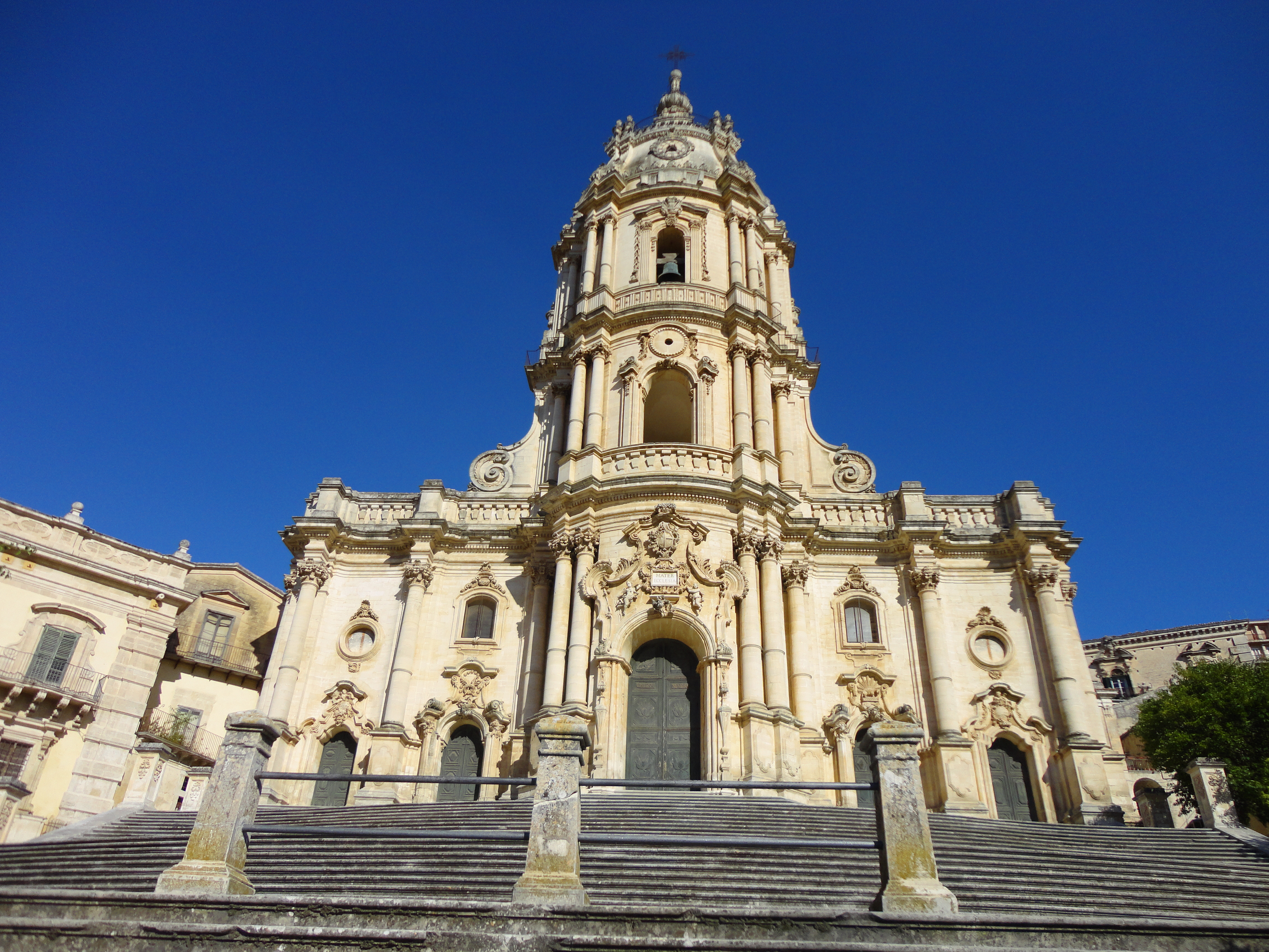 Cathedral of Saint George, Modica, Sicily